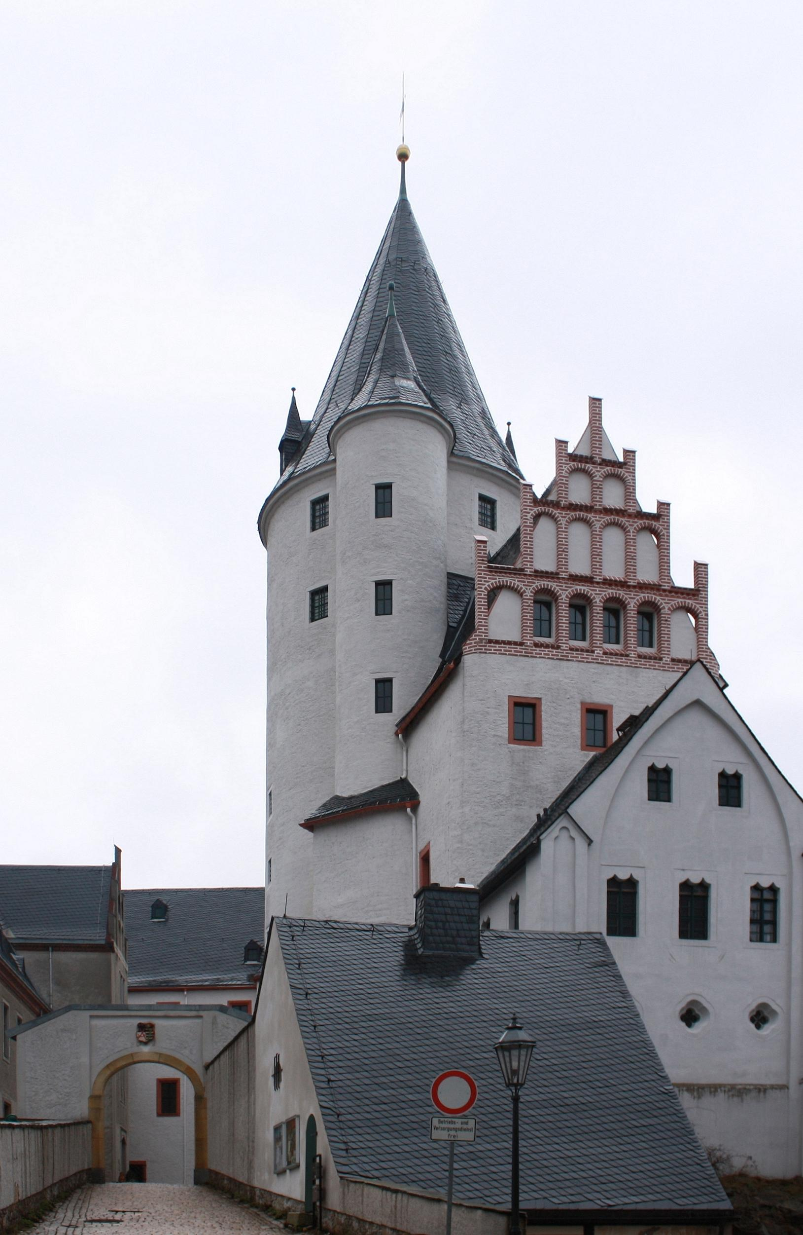 Schloss Schwarzenberg: Castle Tower